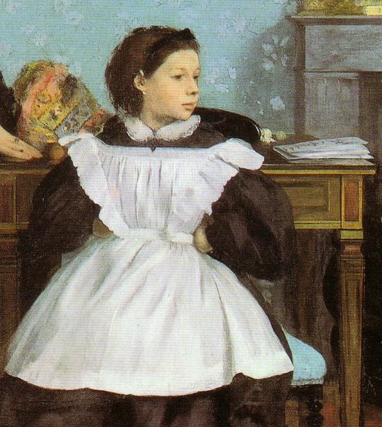 Degas, Bellelli Family, first detail